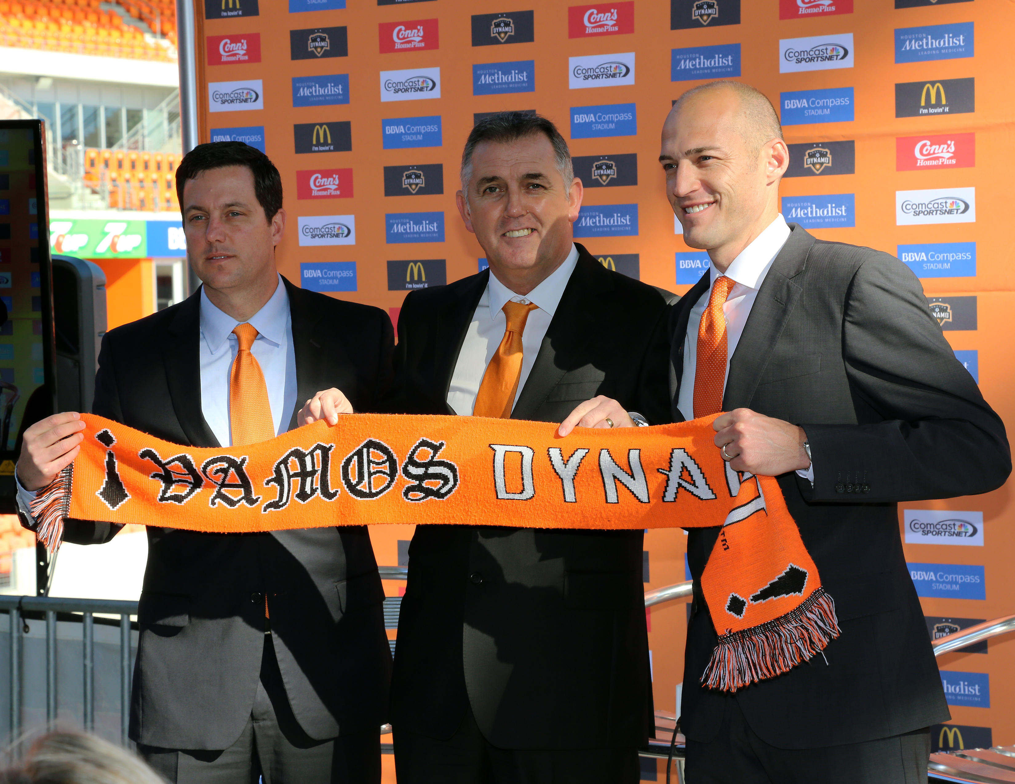 Owen Coyle is introduced as Houston Dynamo Head Coach on December 9, 2014 at BBVA Compass Stadium, Houston, Texas